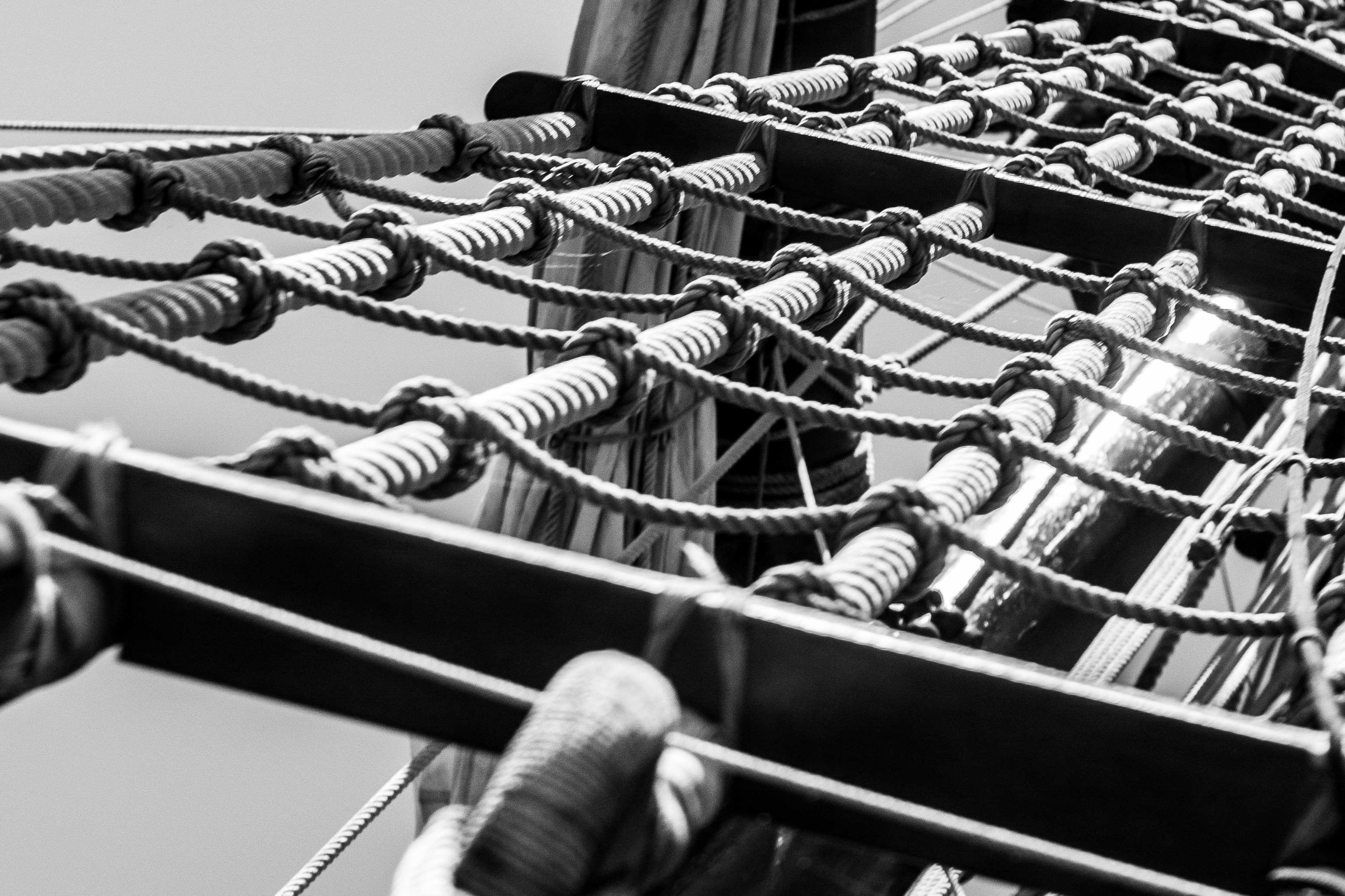 Detail from El GALEÓN ANDALUCÍA during the 2016 Bay City, MI tall ship celebration. In Explore 5 May 2017.